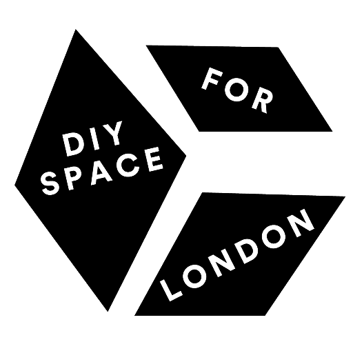 DIY Space for London logo.